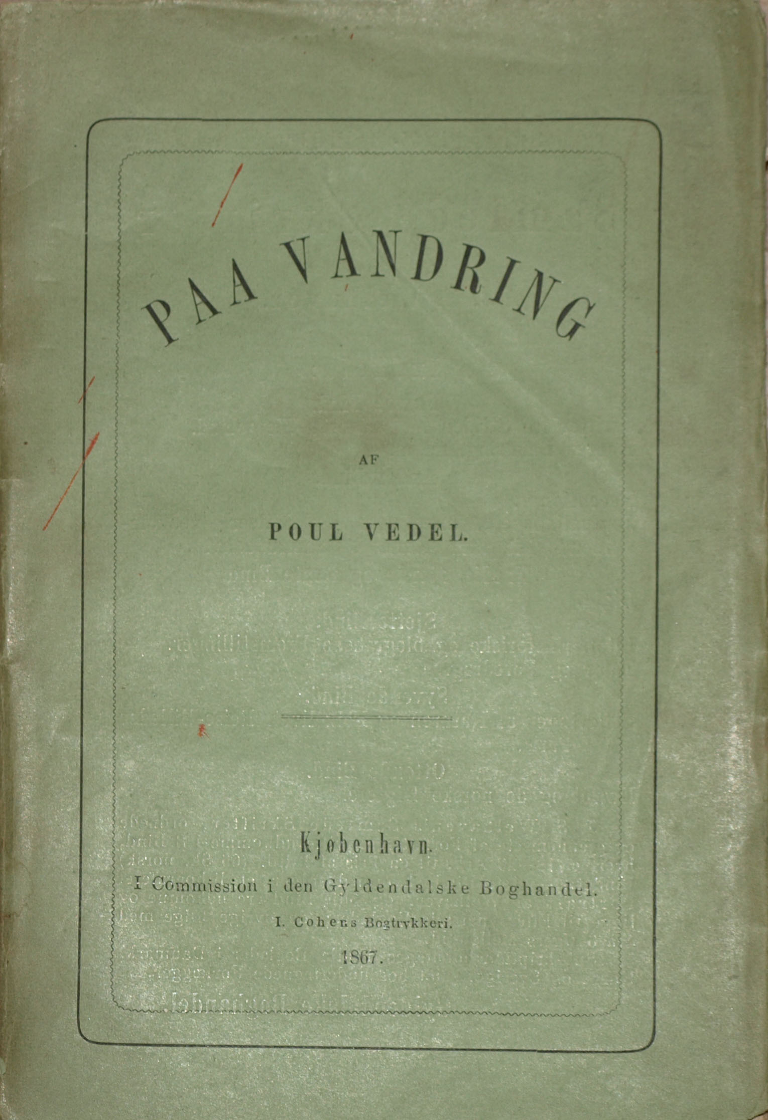 Historikeren Troels-Lunds debutbog var romanen "Paa Vandring" udgivet under pseudonymet Poul Vedel i 1867.